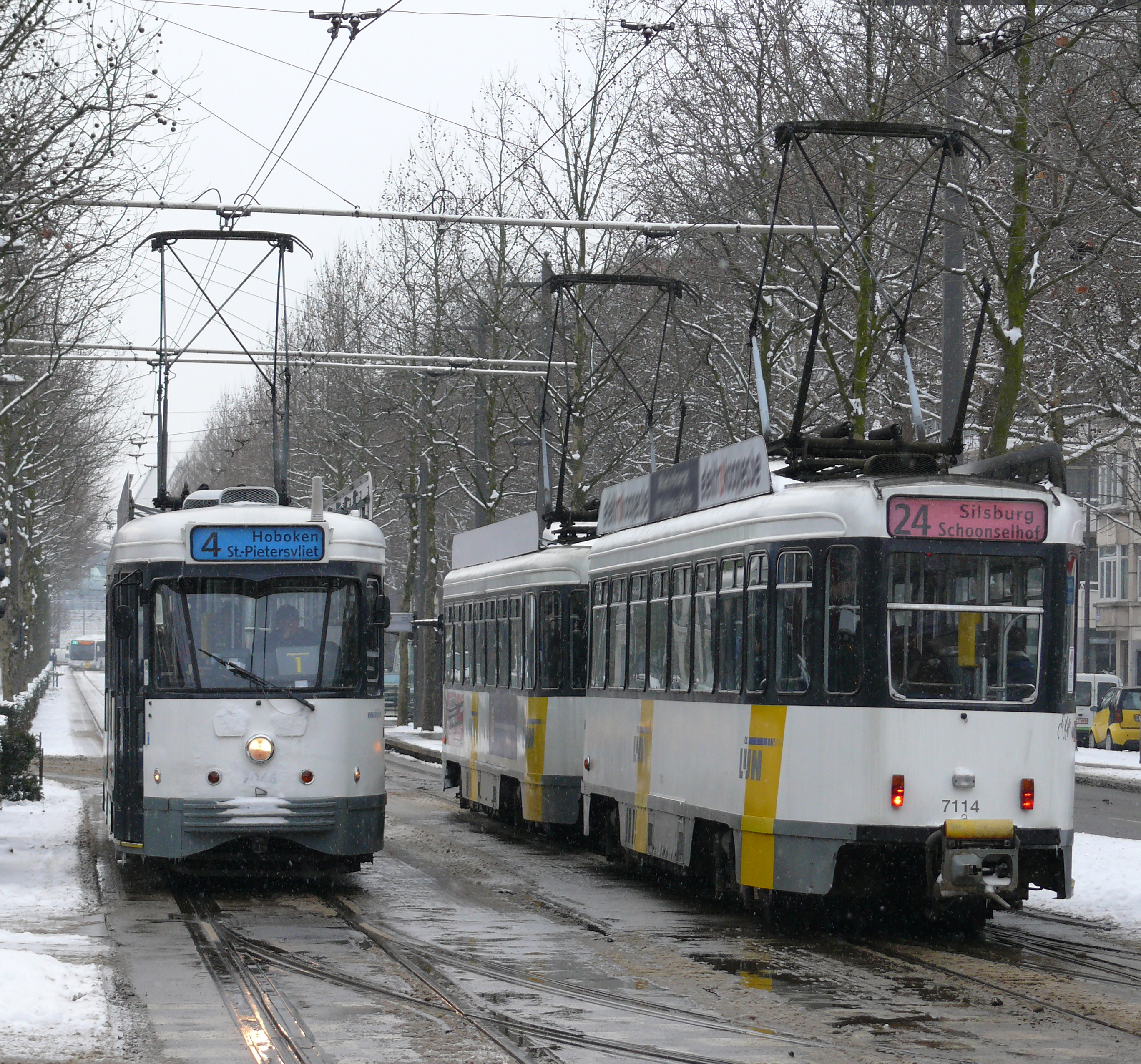 Antwerp trams 7046 and 7114 on tracks at the Leien. These are route 4 and 24 PCC cars.